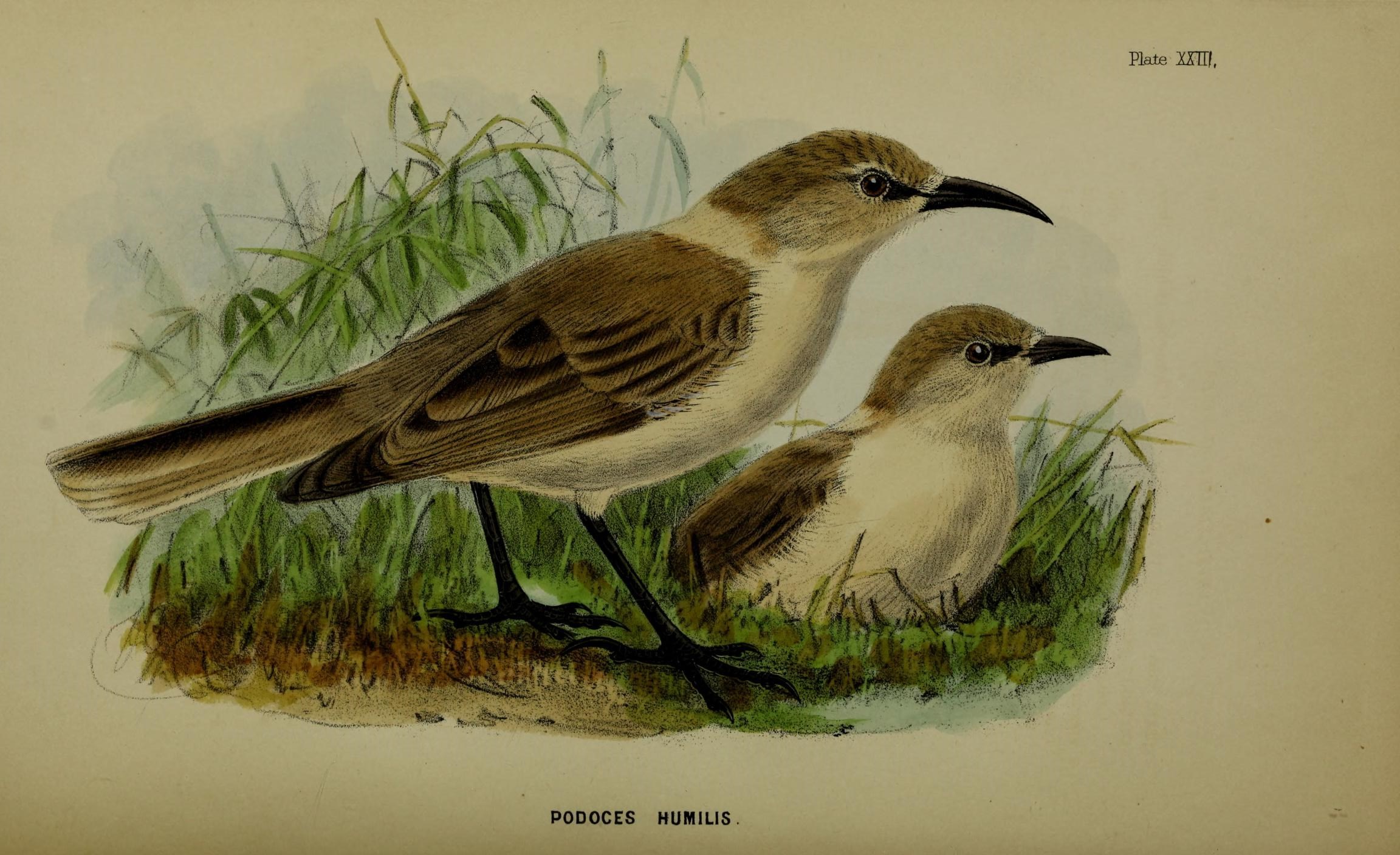 Lahore to Yārkand : incidents of the route and natural history of the countries traversed by the expedition of 1870, under T. D. Forsyth /